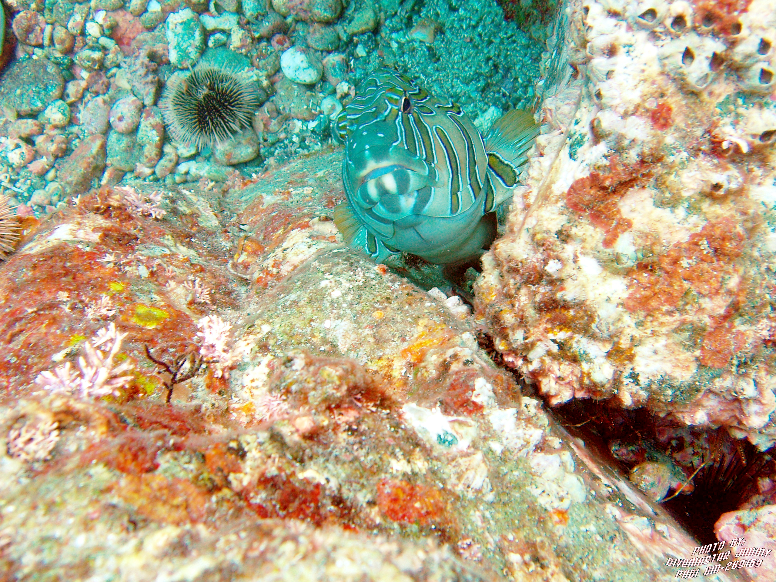 Giant Hawkfish at Magnalena Bay